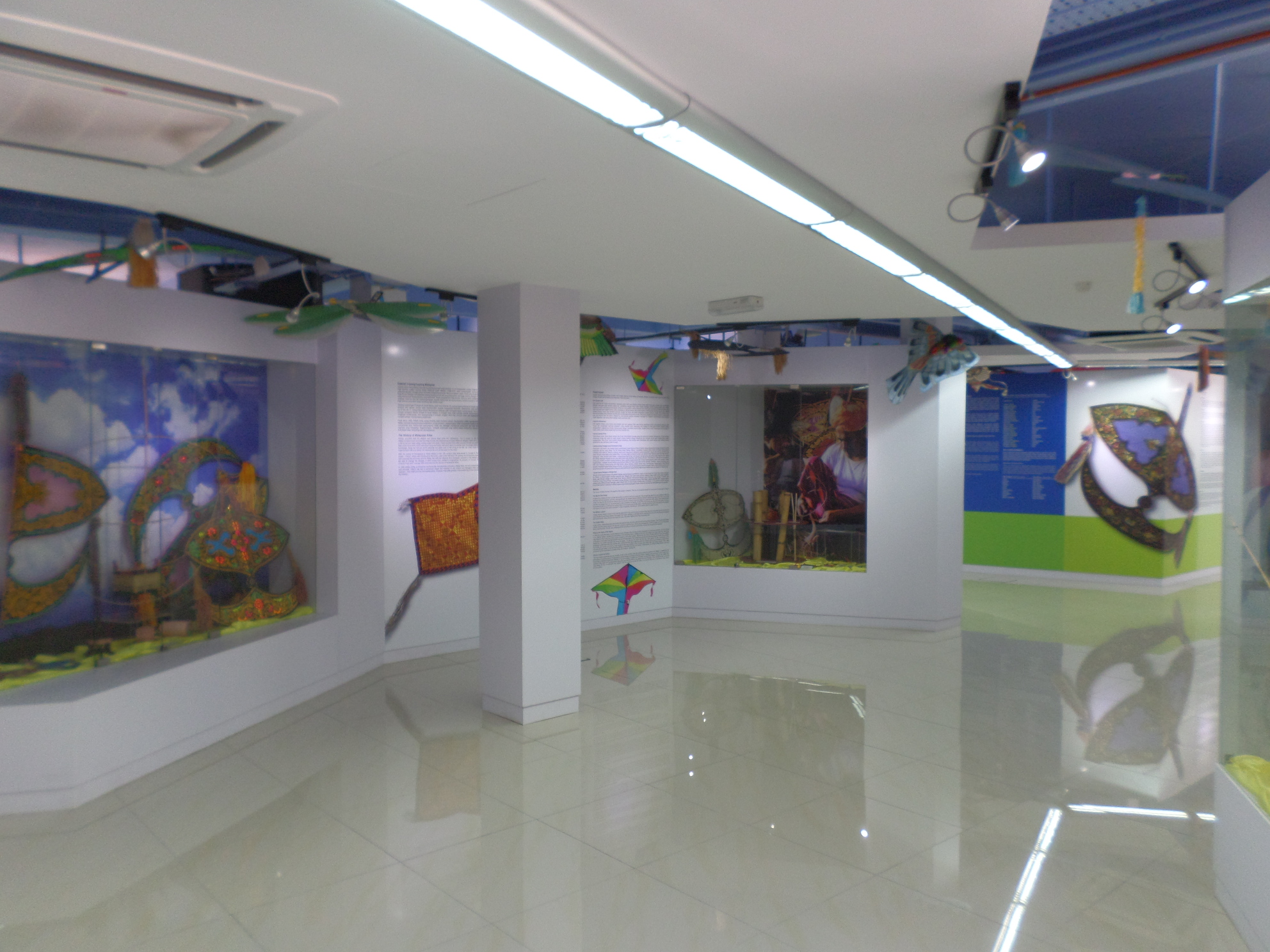 Kite Museum, Central Malacca, Malacca, MalaysiaBahasa Melayu: Muzium Layang-Layang, Melaka Tengah, Melaka, Malaysia